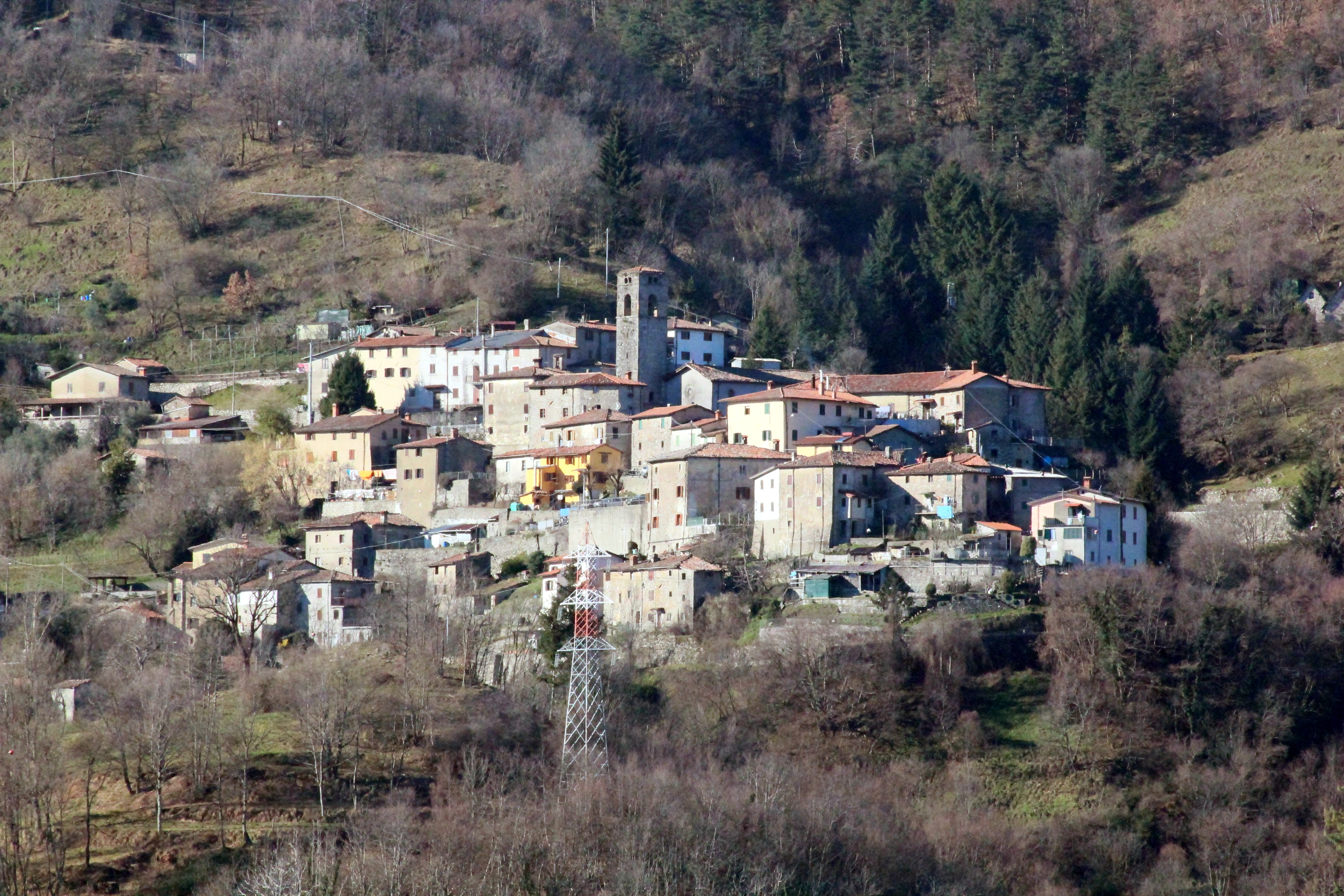 Panorama of Eglio, hamlet of Molazzana, Garfagnana, Province of Lucca, Tuscany, Italy